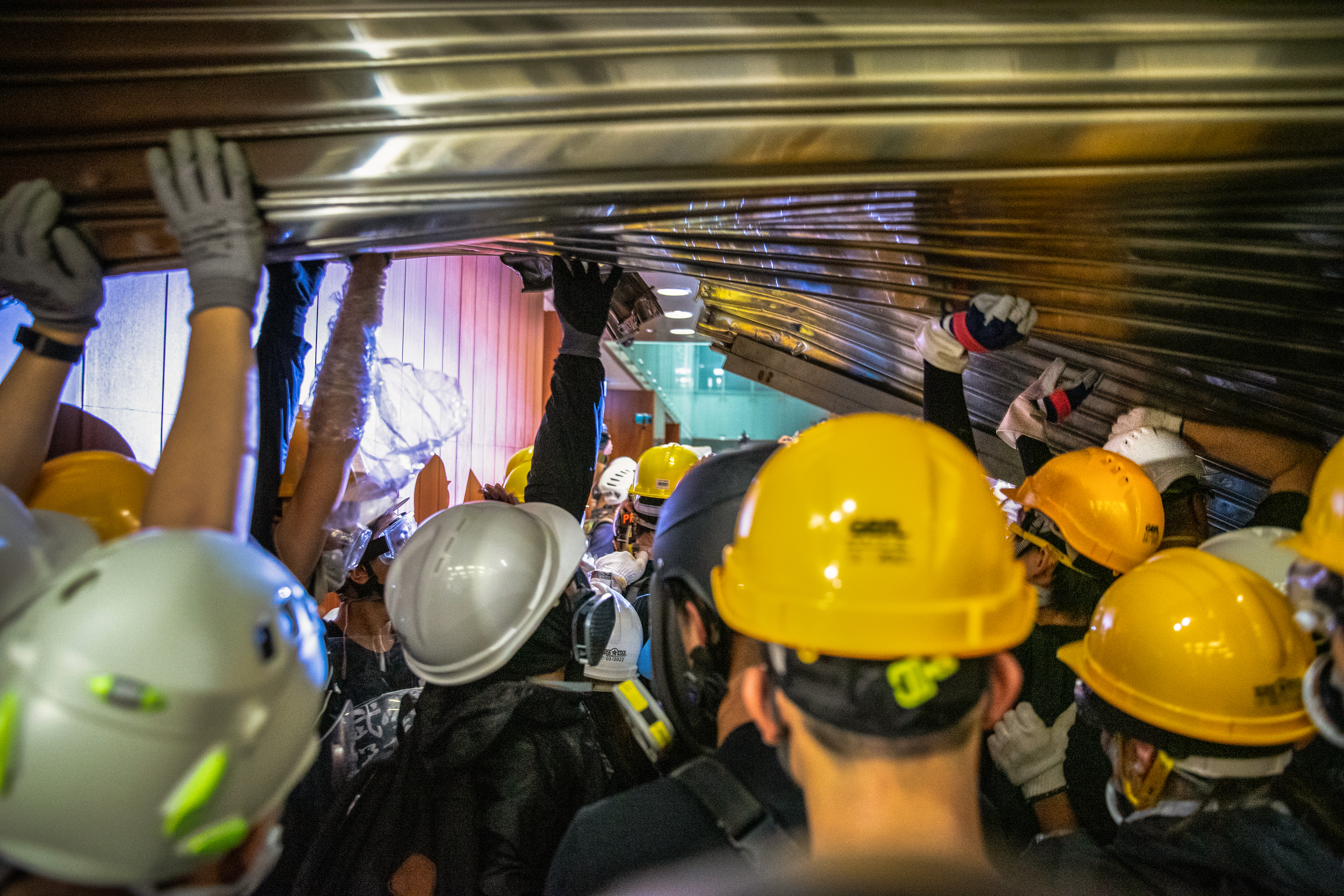 Photo by BC for Studio Incendo (CC BY 4.0)